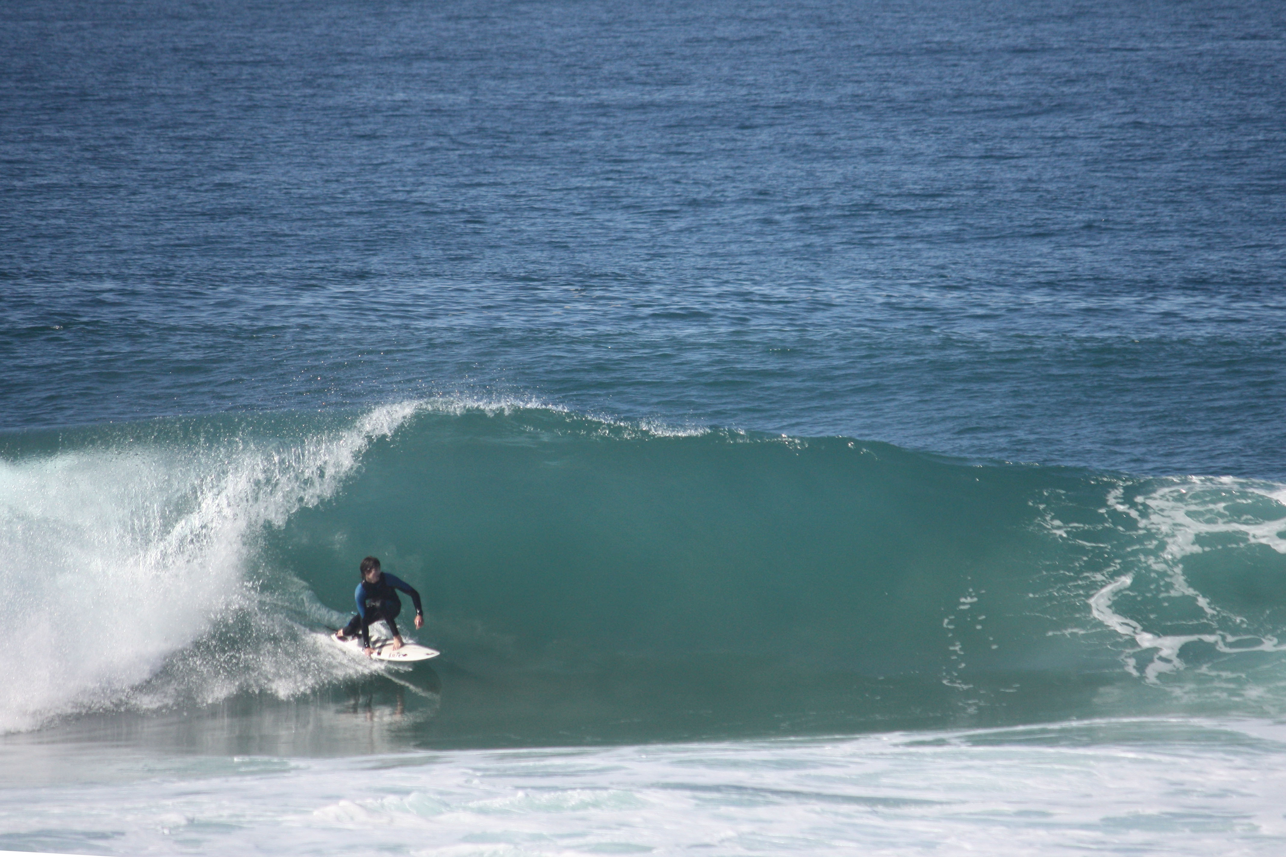 John A Forbes, photo taken at Ballito, KZN, South Africa showing surfer